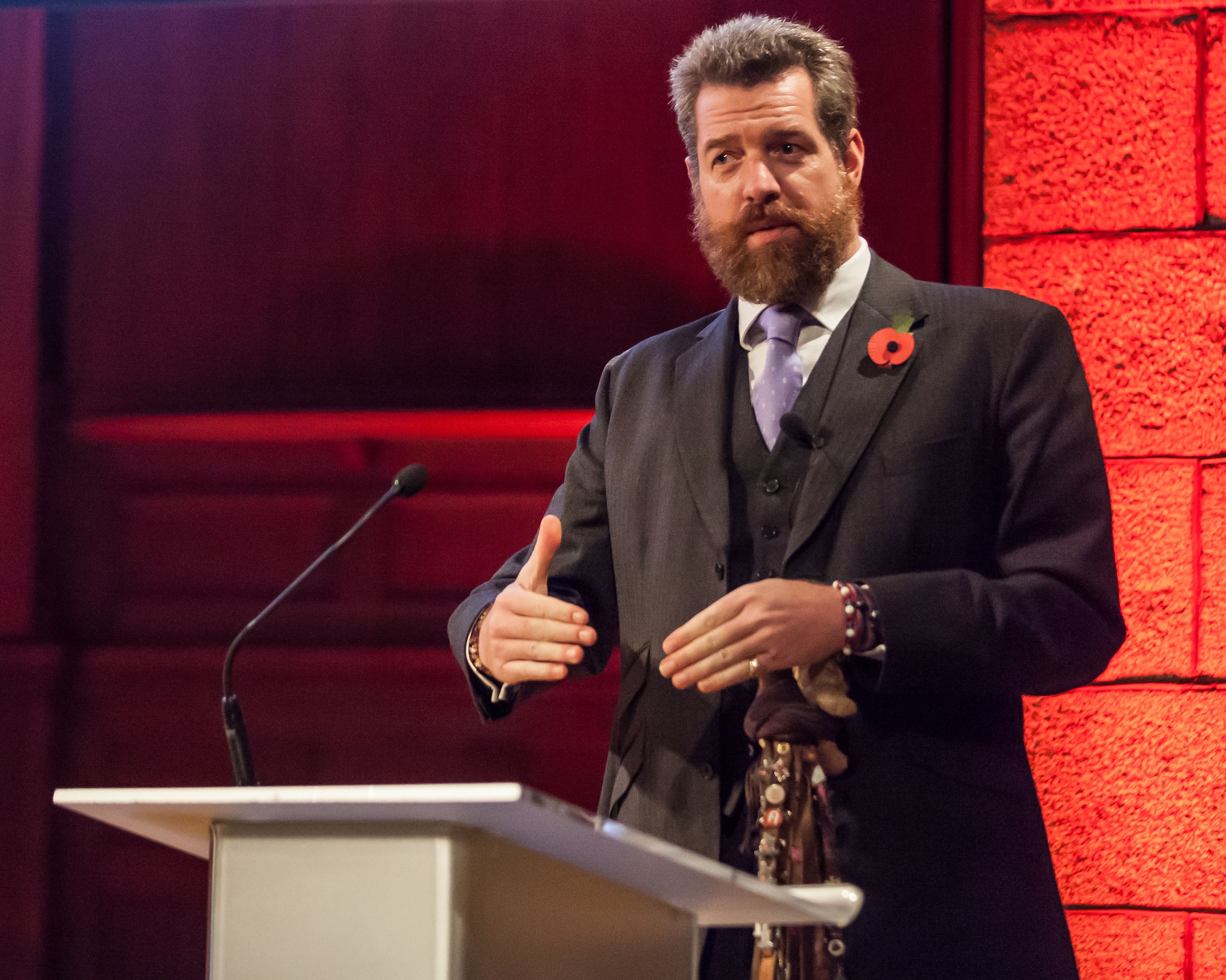 Guernsey Community Foundation Awards 2013